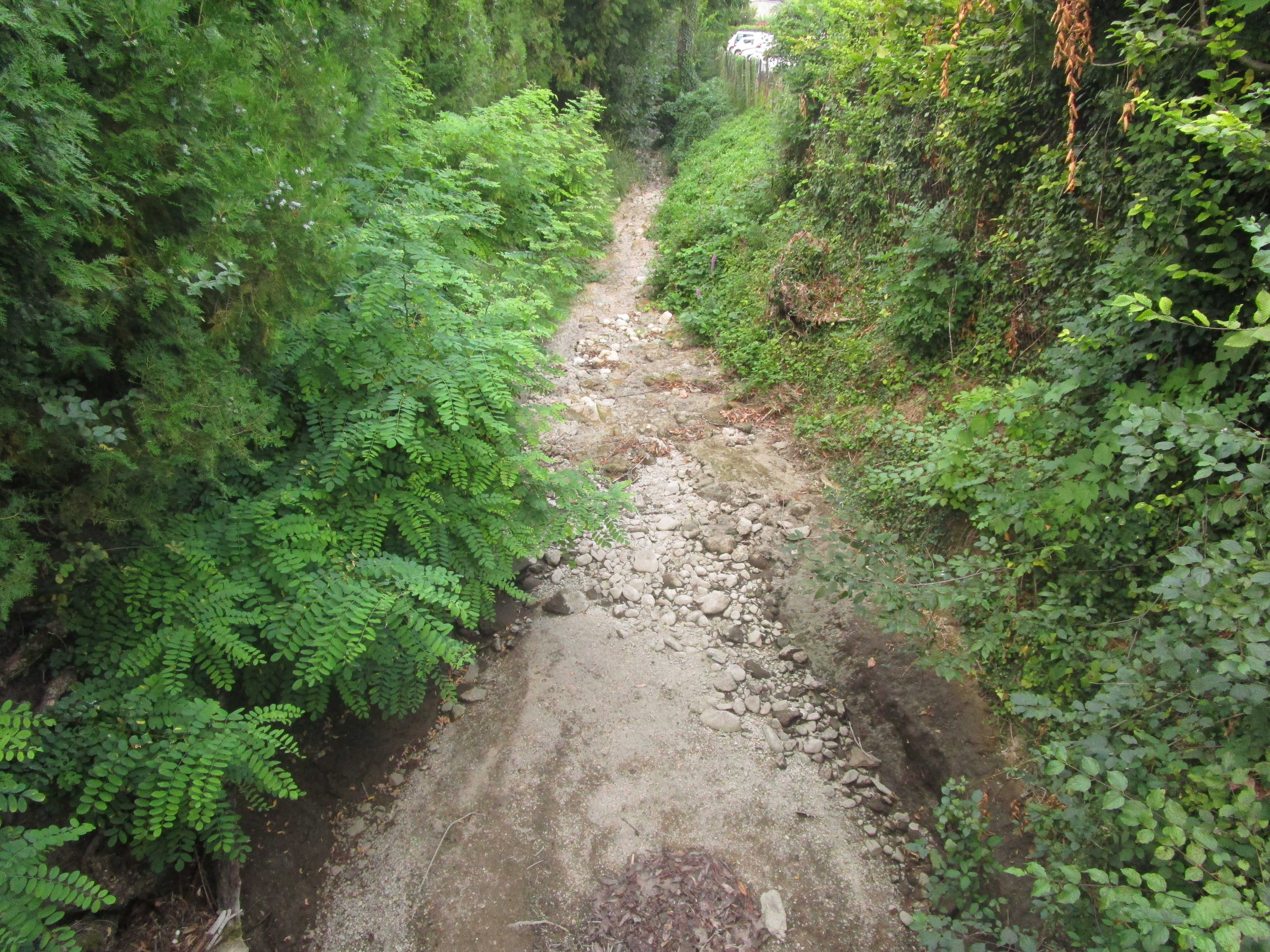 The dried river Nant de la Boisserette in Challes-les-Eaux on August 27, 2016.